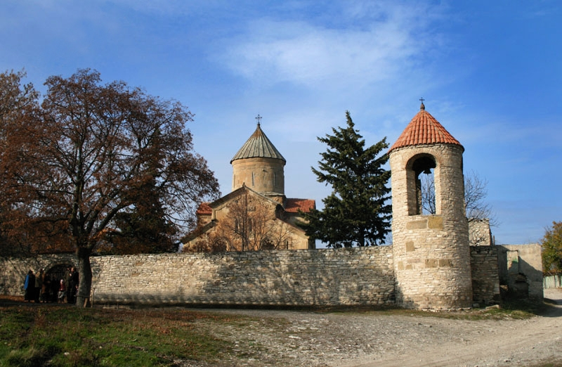 Early 13th-century Ertatsminda church, Shida Kartli, Georgia